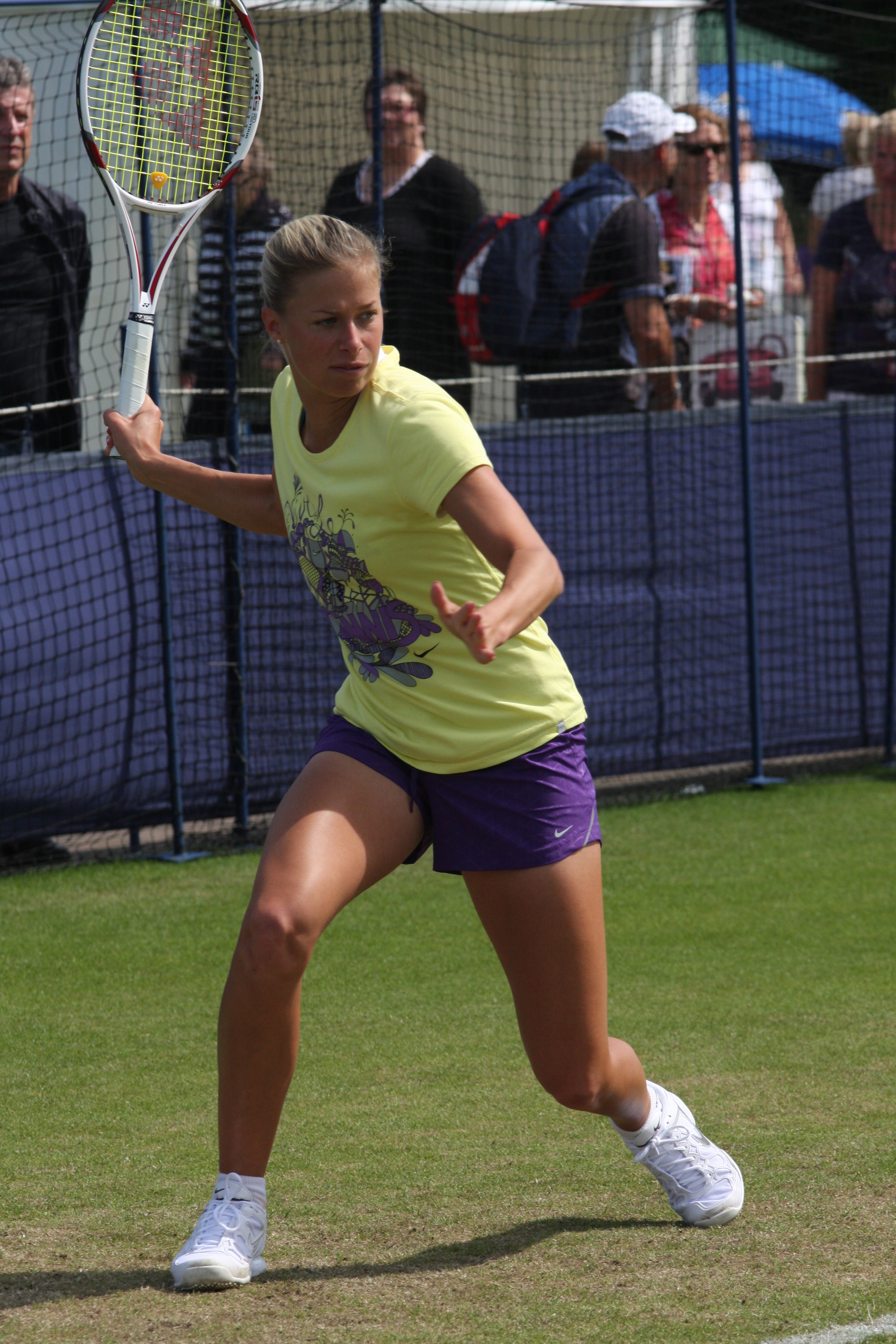 Andrea Hlavackova Aegon International Eastbourne 2011